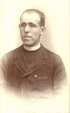 Leonardo Castellanos y Castellanos (1862-1912), bishop of Roman Catholic Diocese of Tabasco, México, when he was rector of the seminary of Zamora de Hidalgo (between 1904 and 1908)